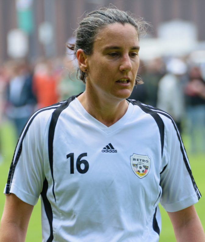 Birgit Prinz - playing for Retro Team Germany in May 2018